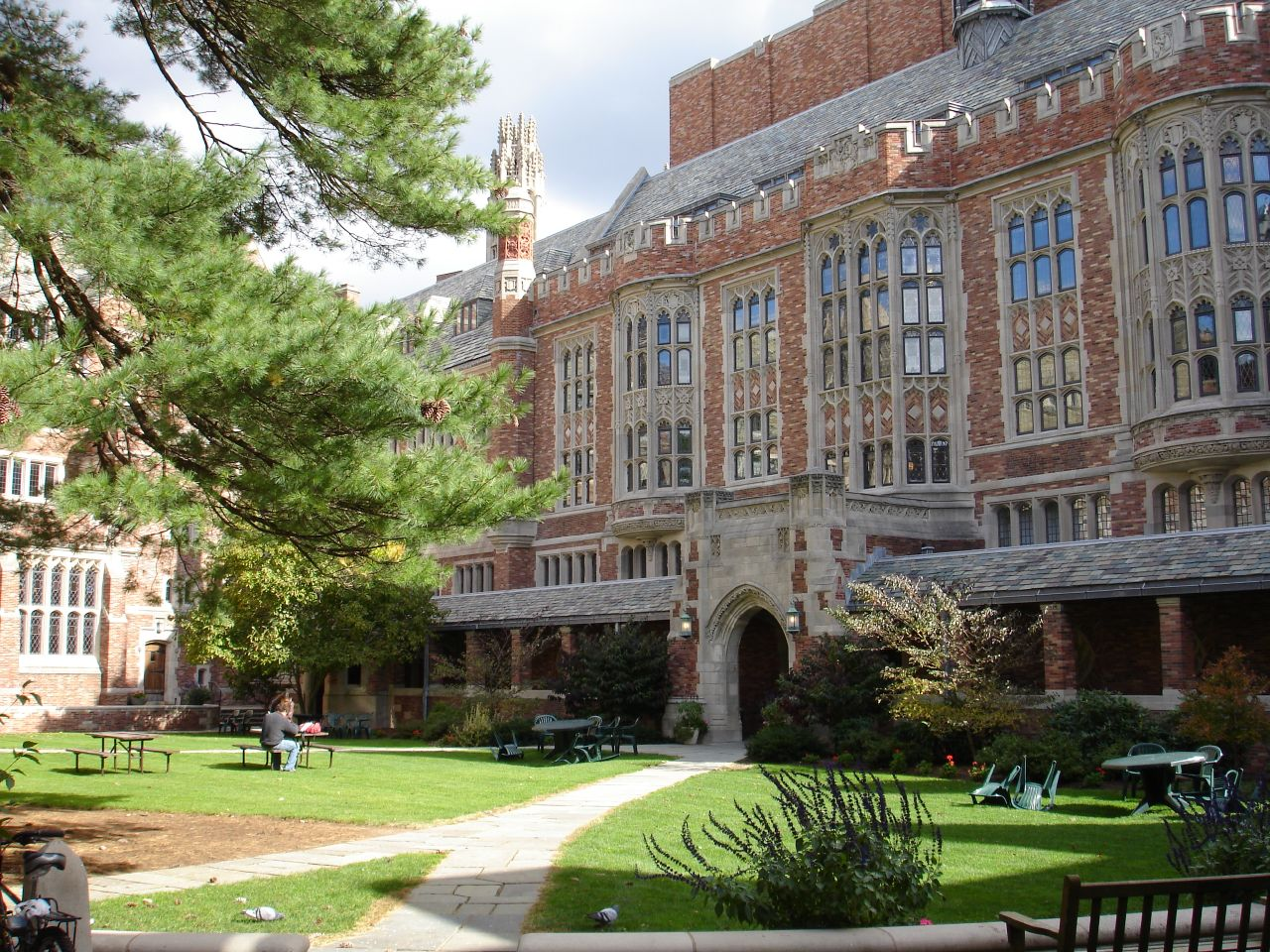 Law School Courtyard at Yale Law School, New Haven, CT